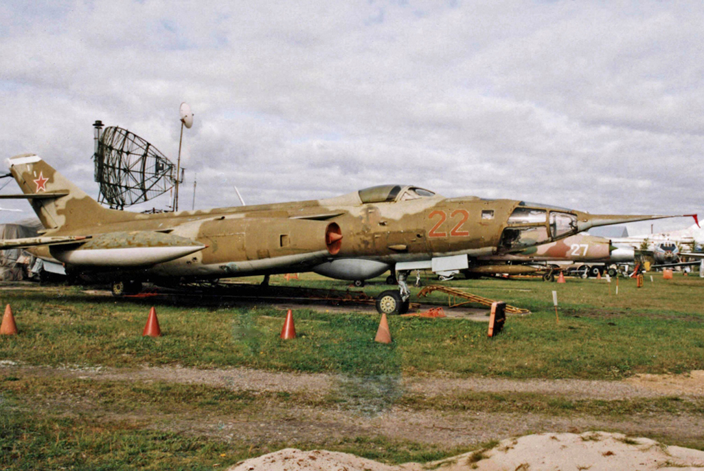 Yakovlev Yak-28R Red 22 at the Riga Aviation Museum in 2005